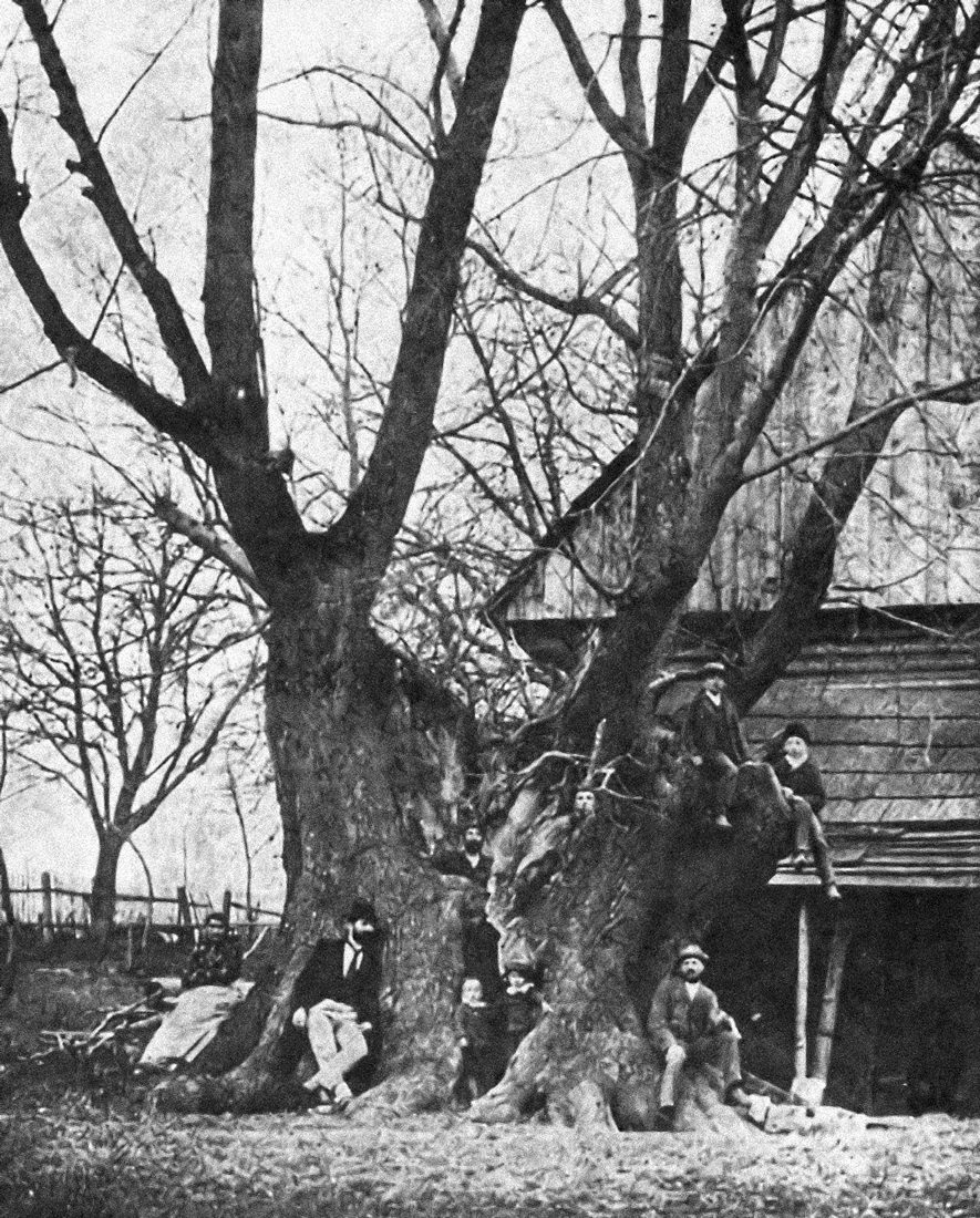 Lime tree in Lhotka near Jablonec nad Nisou, memorable tree. Historical photo by Jan Vilim.